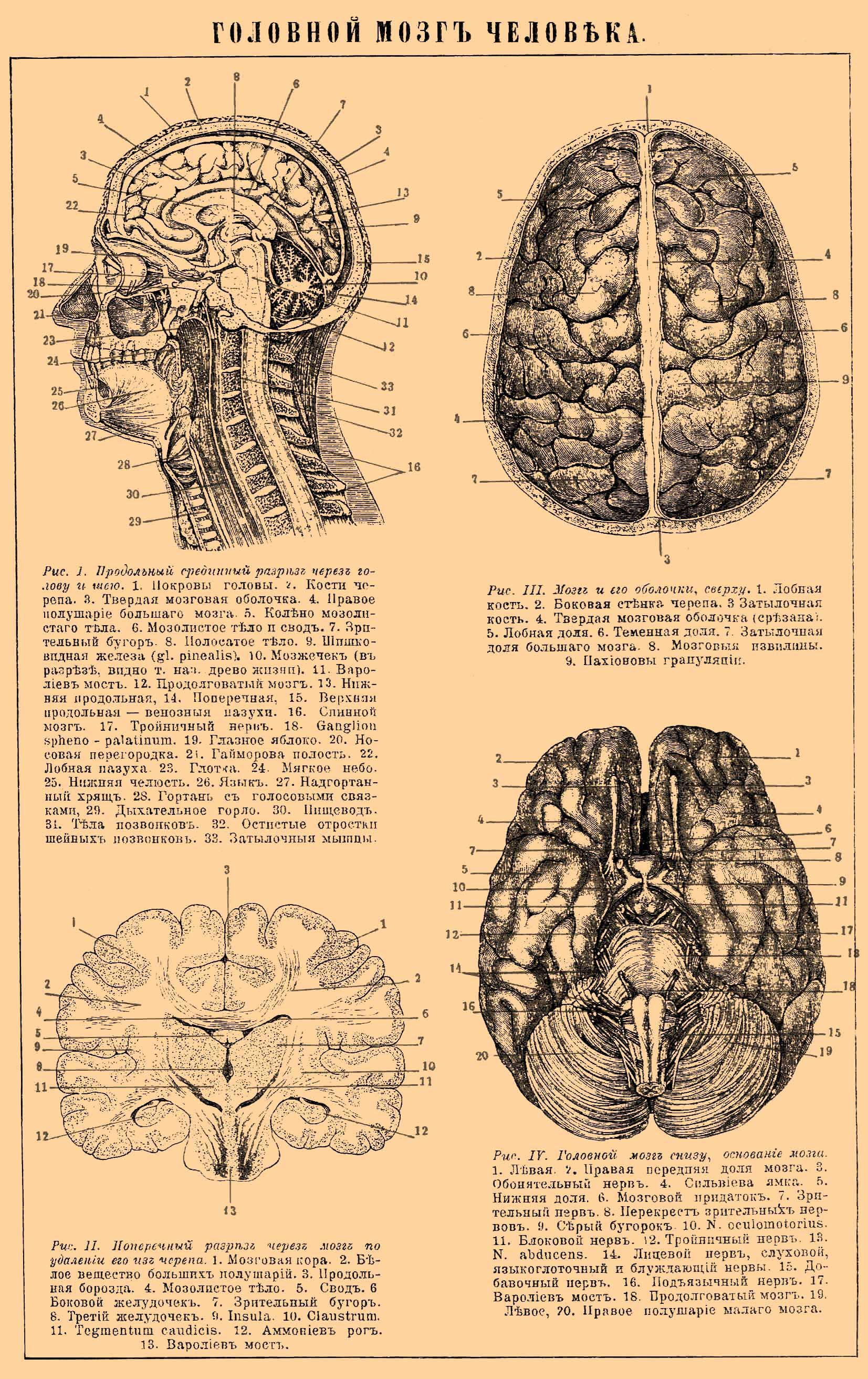 Illustration from Brockhaus and Efron Encyclopedic Dictionary (1890—1907)